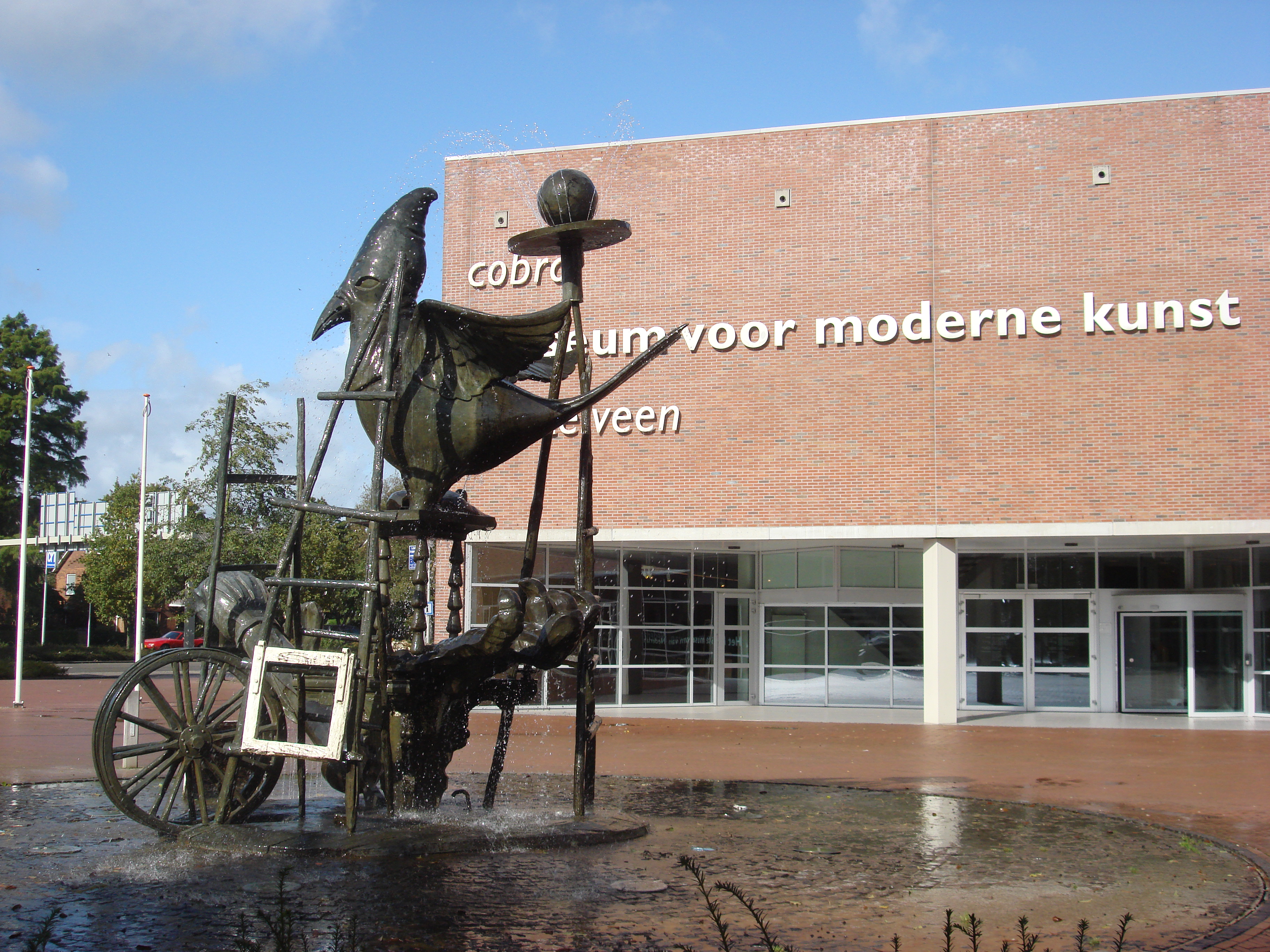 The 'Cobra museum voor moderne kunst' in Amstelveen.